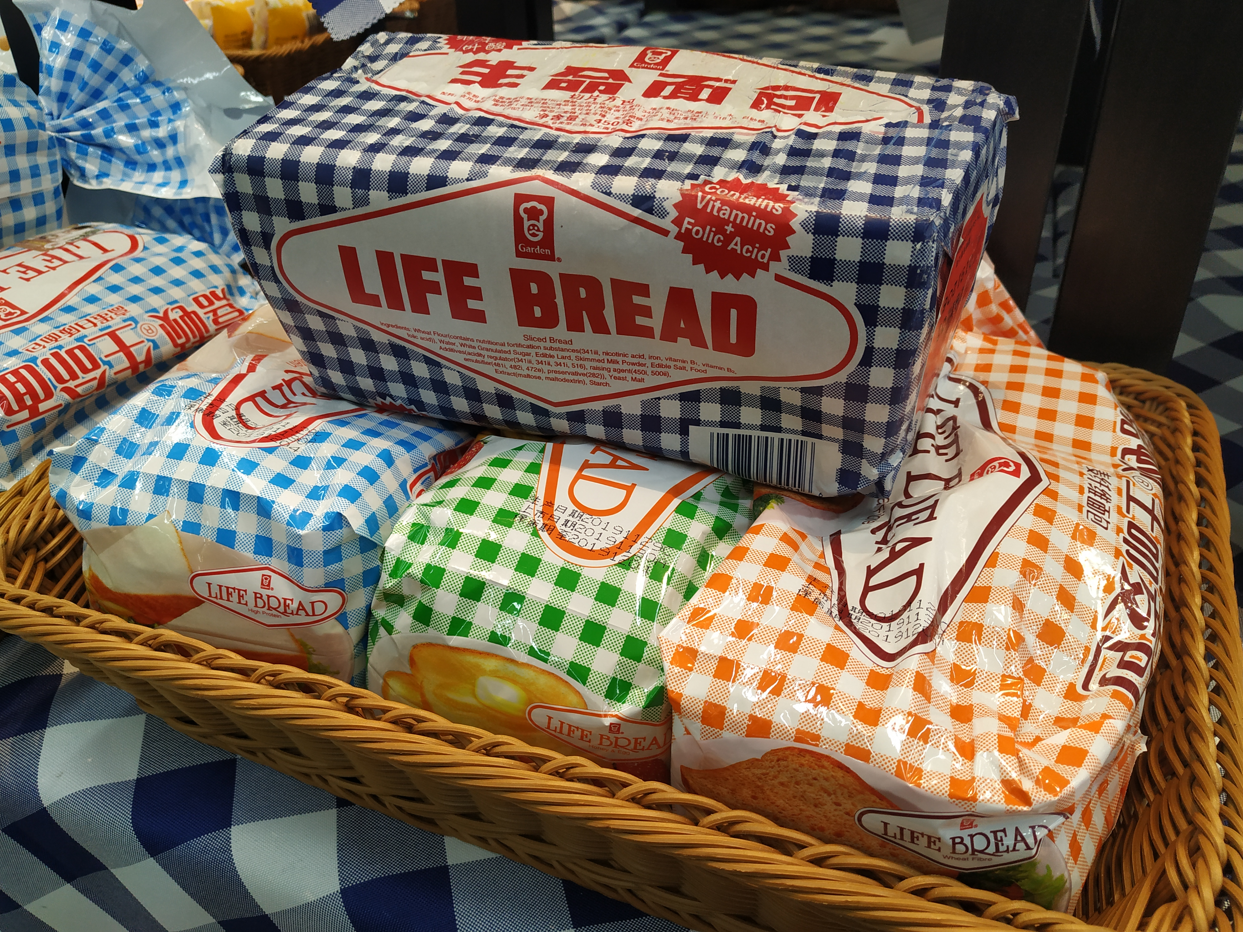 Garden's Life Bread sold at Walmart's in Guangzhou, Guangdong, China.